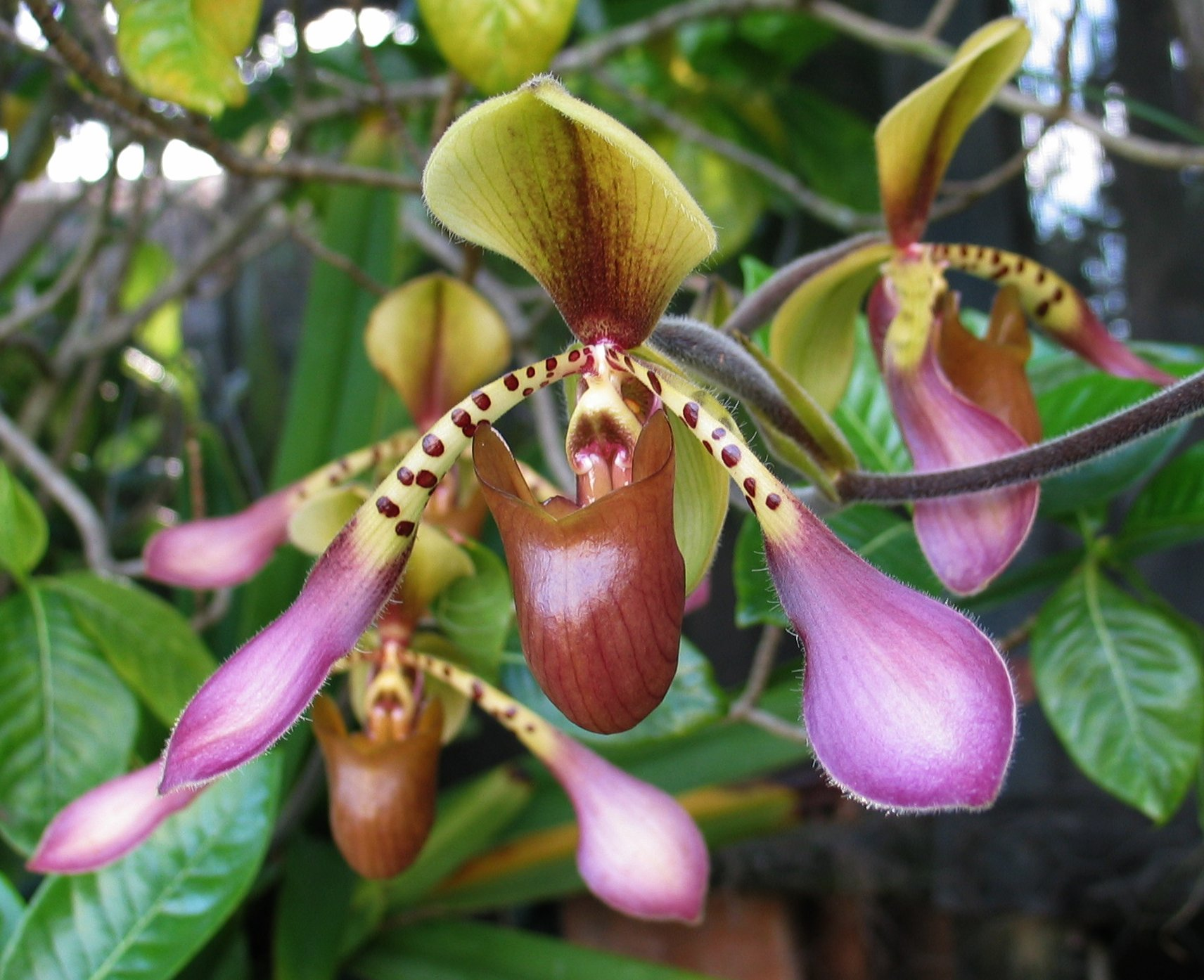 Paphiopedilum lowii; Orchidaceae A mostly epiphytic paphiopedilum species.